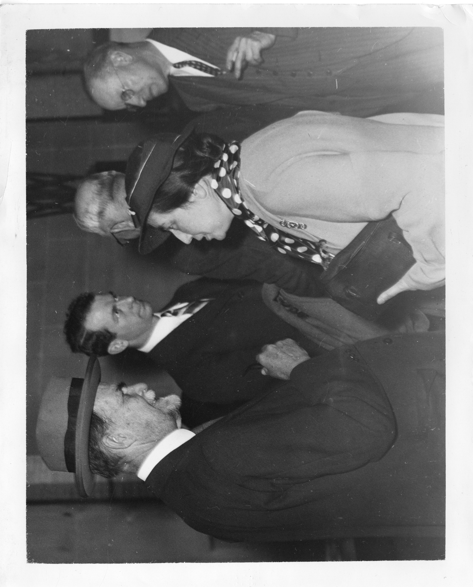 Subject: Morgan, Thomas Hunt 1866-1945 Pauling, Linus 1901-1994 Osterhout, Marian Irwin 1889-1973 California Institute of Technology Bryn Mawr College Radcliffe College Rockefeller Institute for Medical Research Type: Black-and-white photographs Date: 1935 Topic: Nobel Prizes Genetics Chemistry Botany Women scientists Local number: SIA Acc. 90-105 [SIA2009-1075] Summary: left to right: California Institute of Technology geneticist Thomas Hunt Morgan and chemist Linus Carl Pauling (1901-1994), with botanist Marian Irwin Osterhout (1889-1973). Osterhout was educated at Bryn Mawr College and Radcliffe College (Ph.D., 1919) and worked at the Rockefeller Institute for Medical Research, 1925-1933 Cite as: Acc. 90-105 - Science Service, Records, 1920s-1970s, Smithsonian Institution Archives Persistent URL:Link to data base record Repository:Smithsonian Institution Archives View more collections from the Smithsonian Institution.